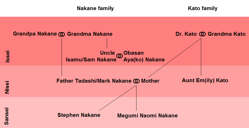 This image shows the family tree of Naomi, the narrator of Joy Kogawa's novel Obasan.